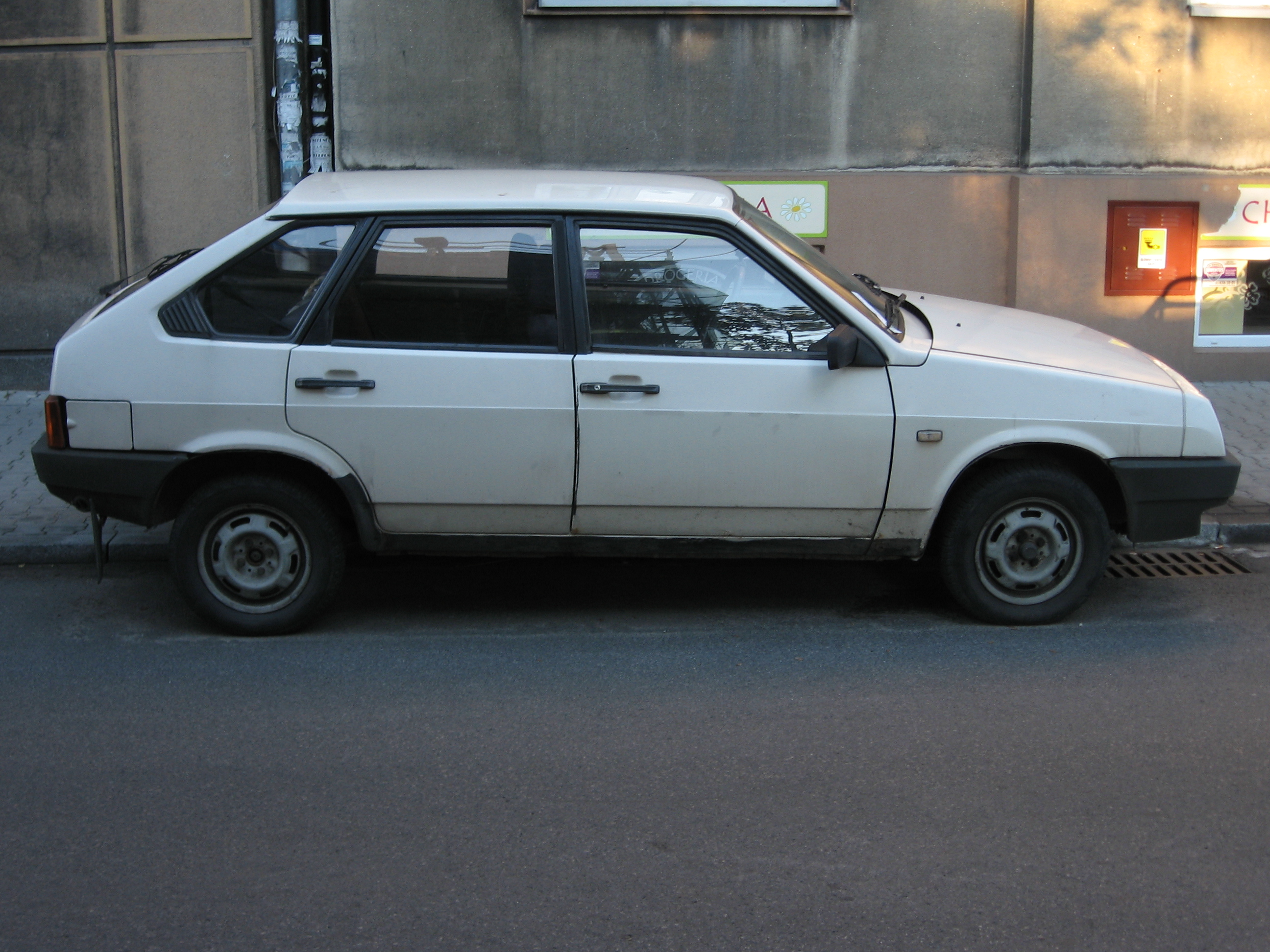 Lada Samara 2109 car in Kraków, Poland.